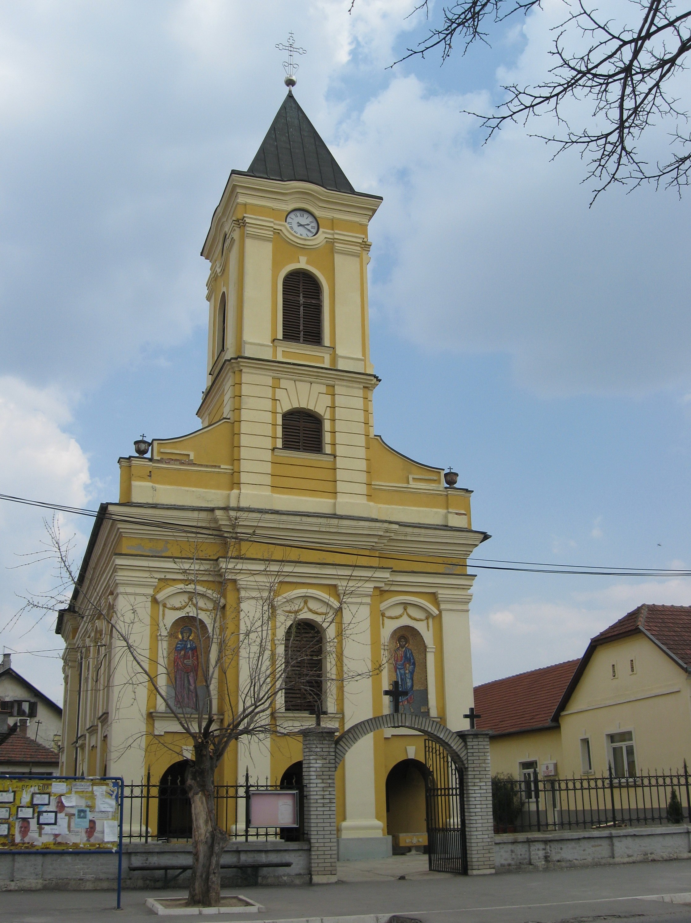 Holy Ascension Church